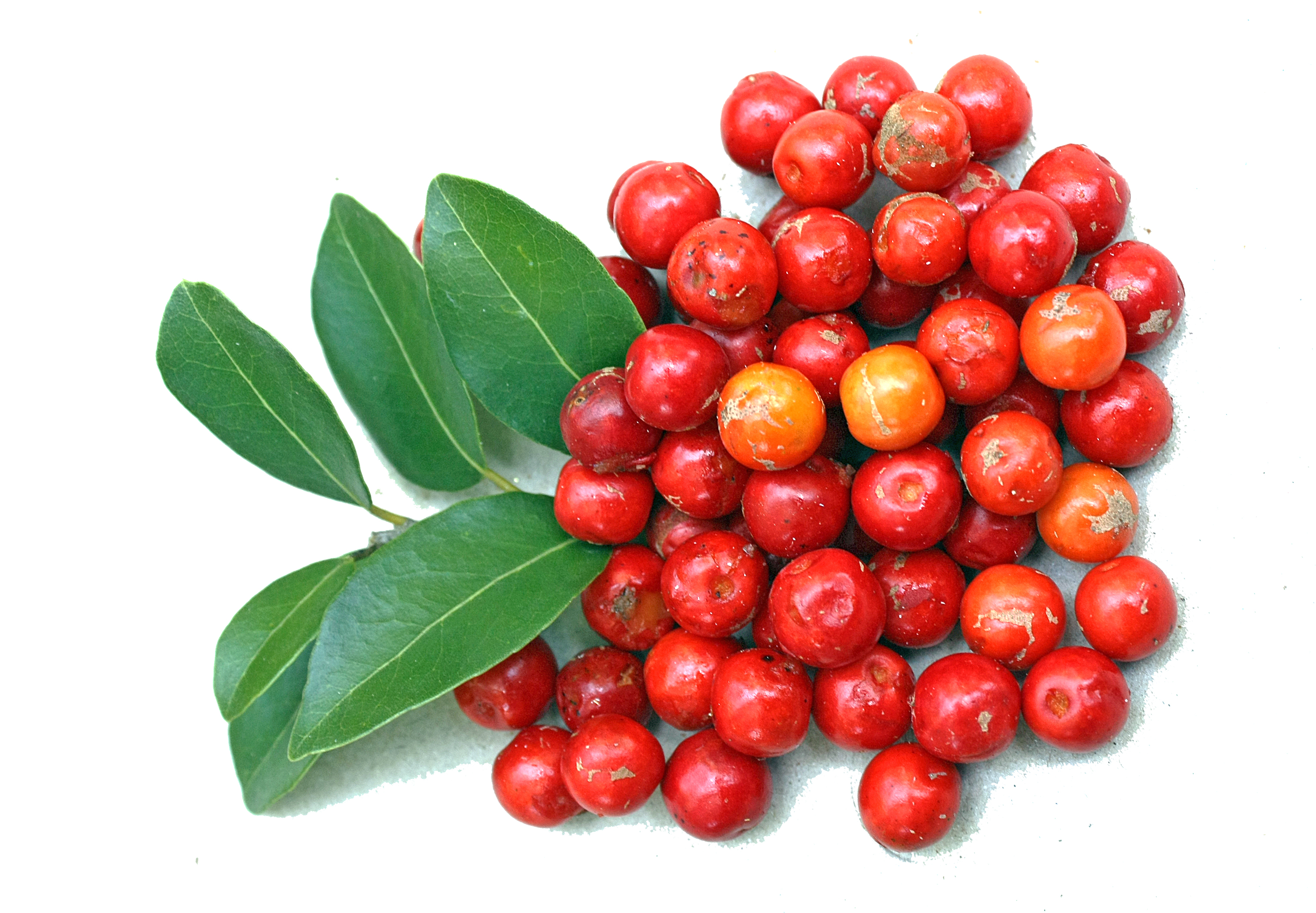 Drypetes sepiaria fruits & leaves